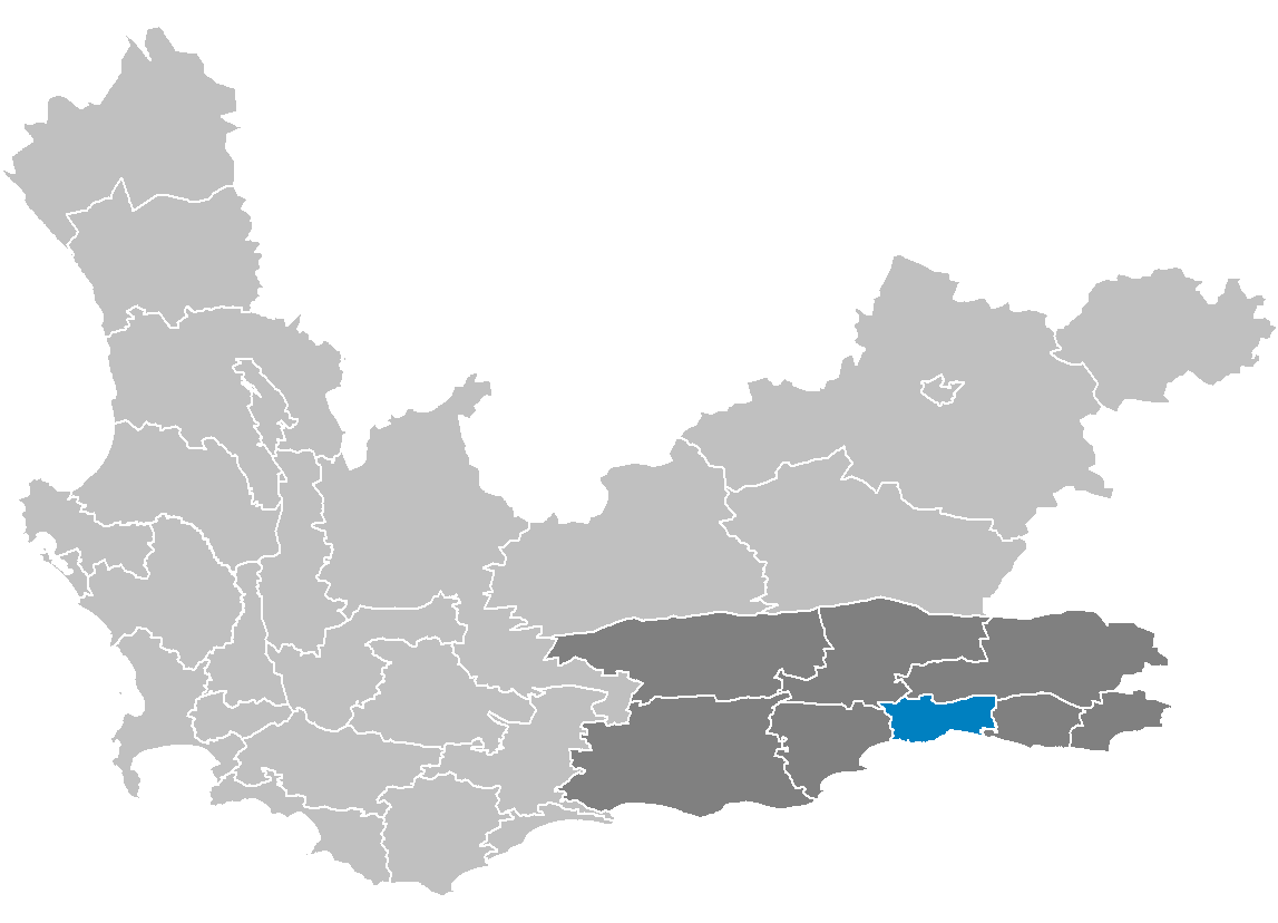 Map showing the George Local Municipality, within the Eden District Municipality, within the Western Cape.